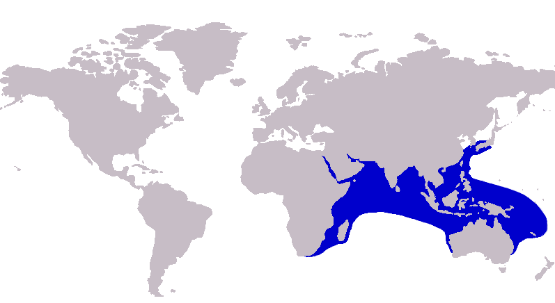 Distribution of torpedo scad, Megalaspis cordyla using map based on GDFL image